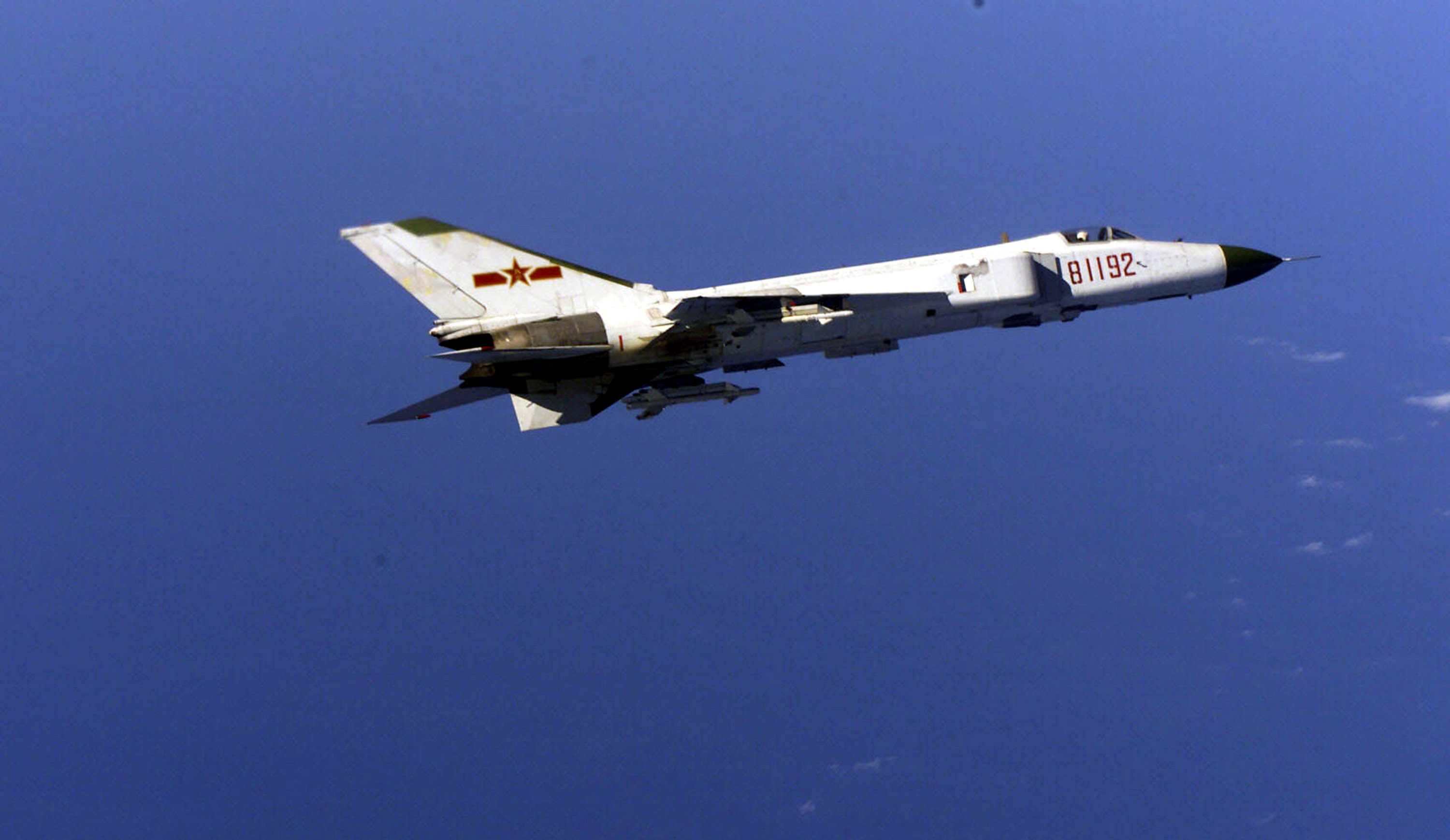 A Chinese F-8 flies near a Navy aircraft on Jan. 24, 2001.